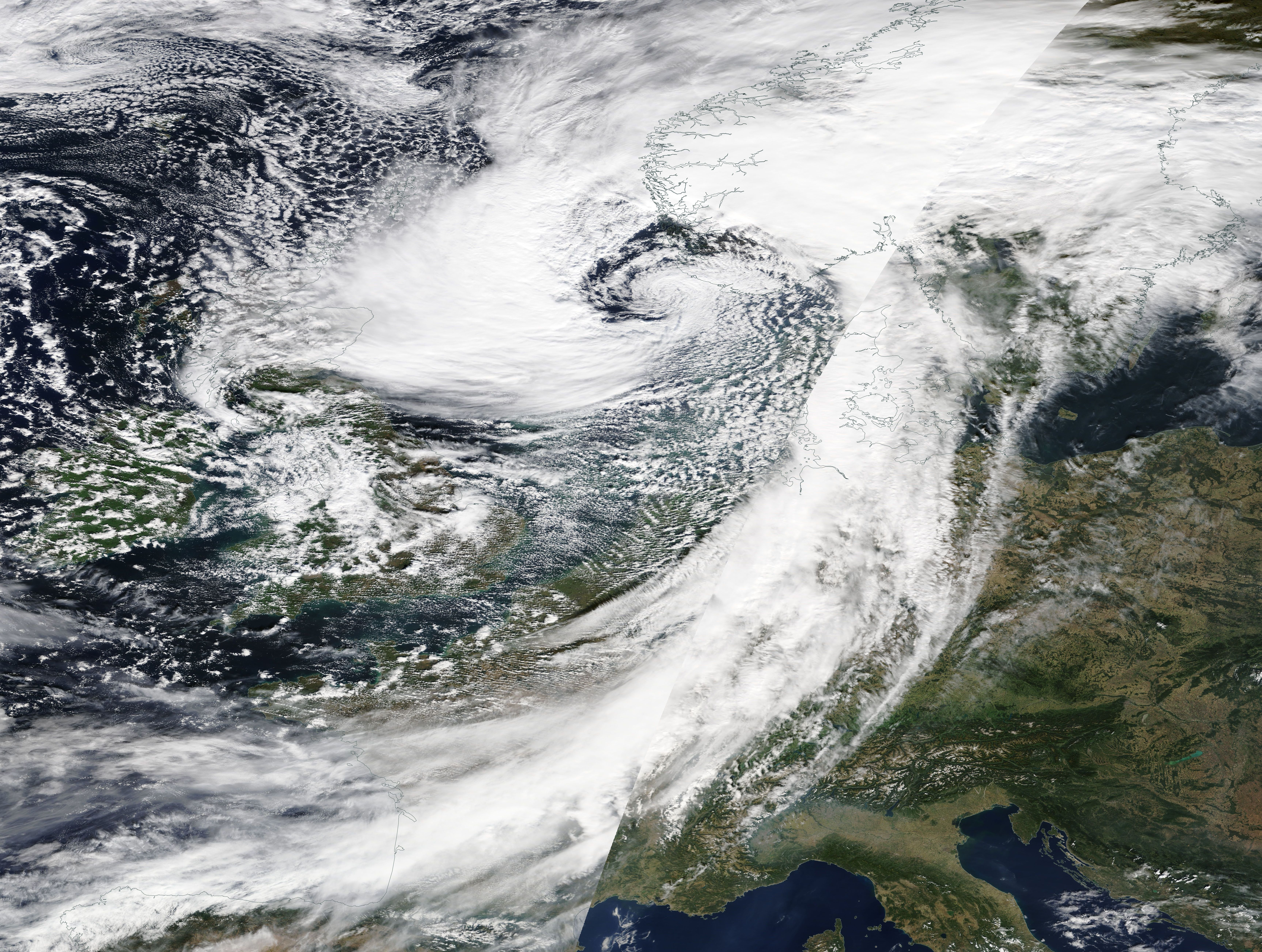 Storm Bronagh of the 2018–19 European windstorm season emerging into the North Sea on 21 September 2018 after crossing the United Kingdom the previous day.